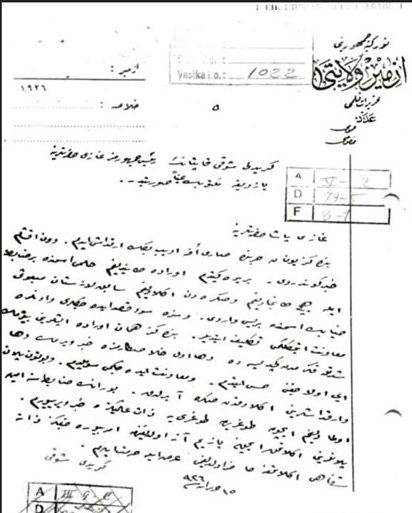 The letter of Şevki of Crete, 1926.